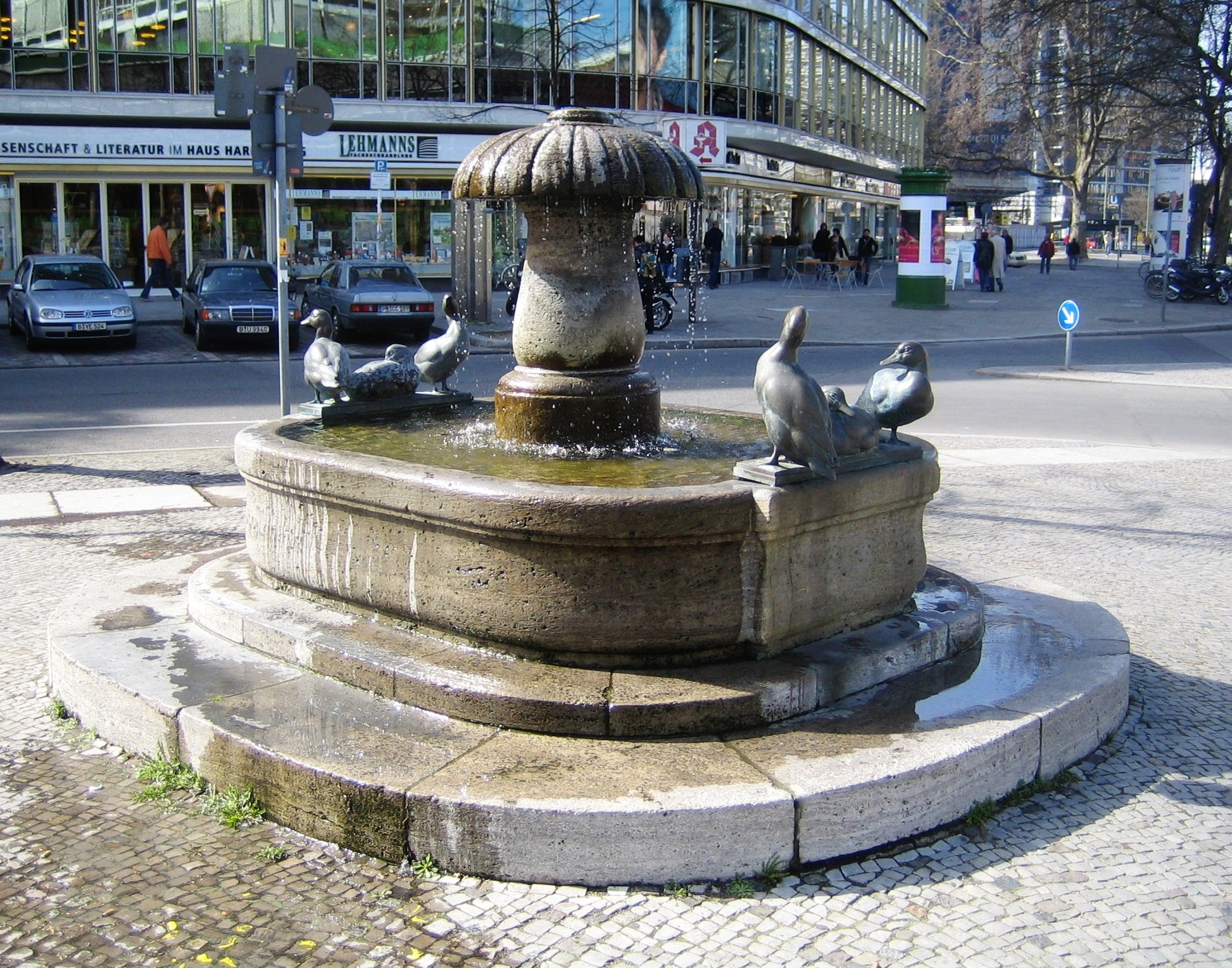 The "Entenbrunnen" (fountain with ducks) in Berlin-Charlottenburg (Germany). Built up in 1911. Design: August Gaul.